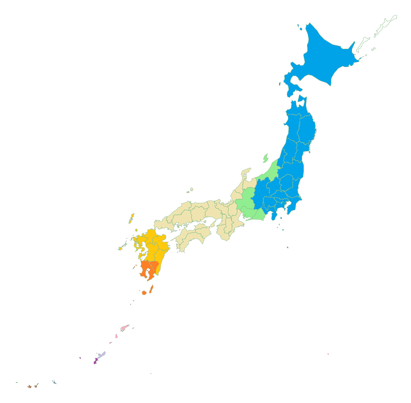 Schematic of Japonic languages